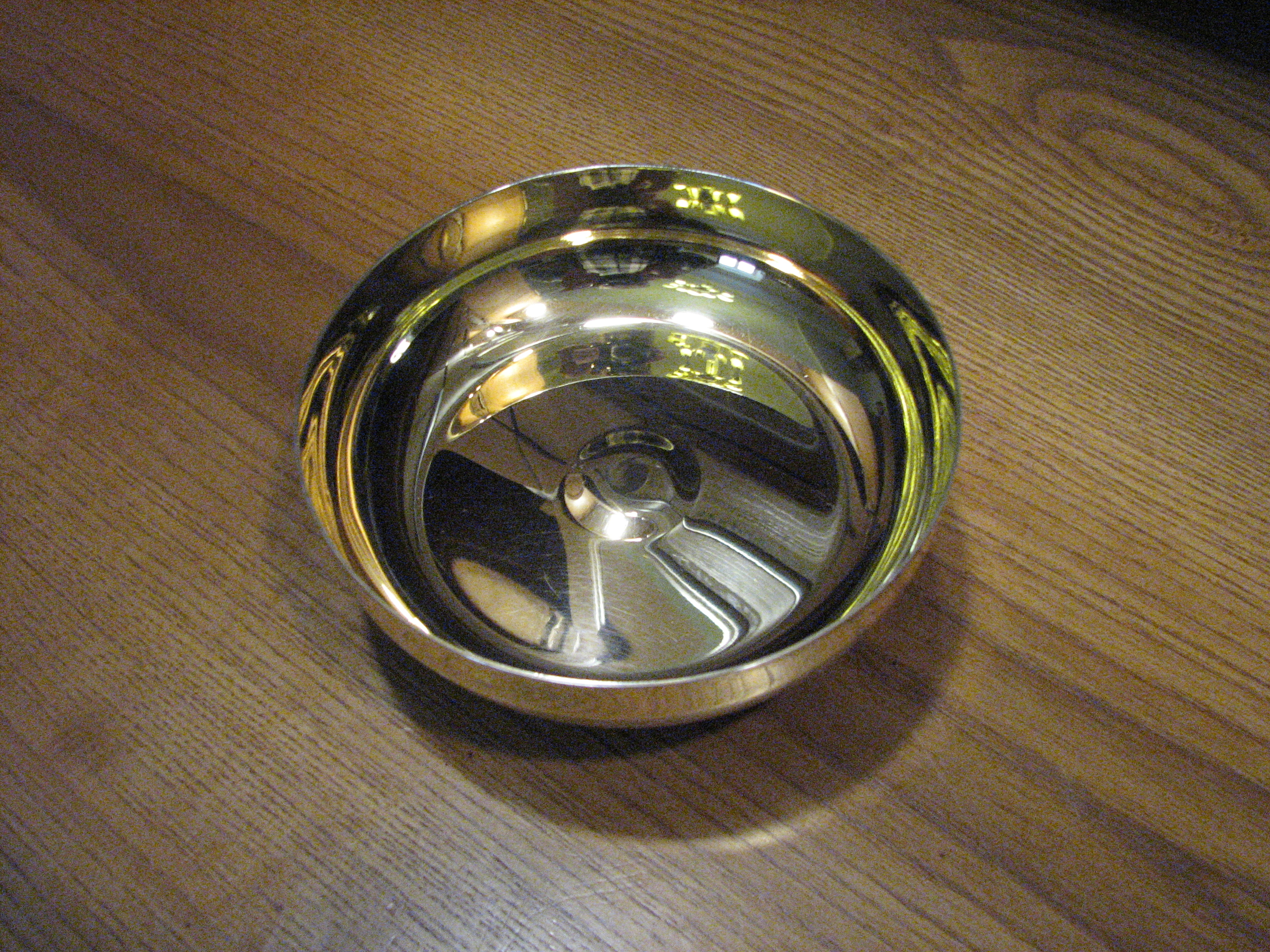 The deep communion Chalice paten used during the Eucharist in the Catholic Church.